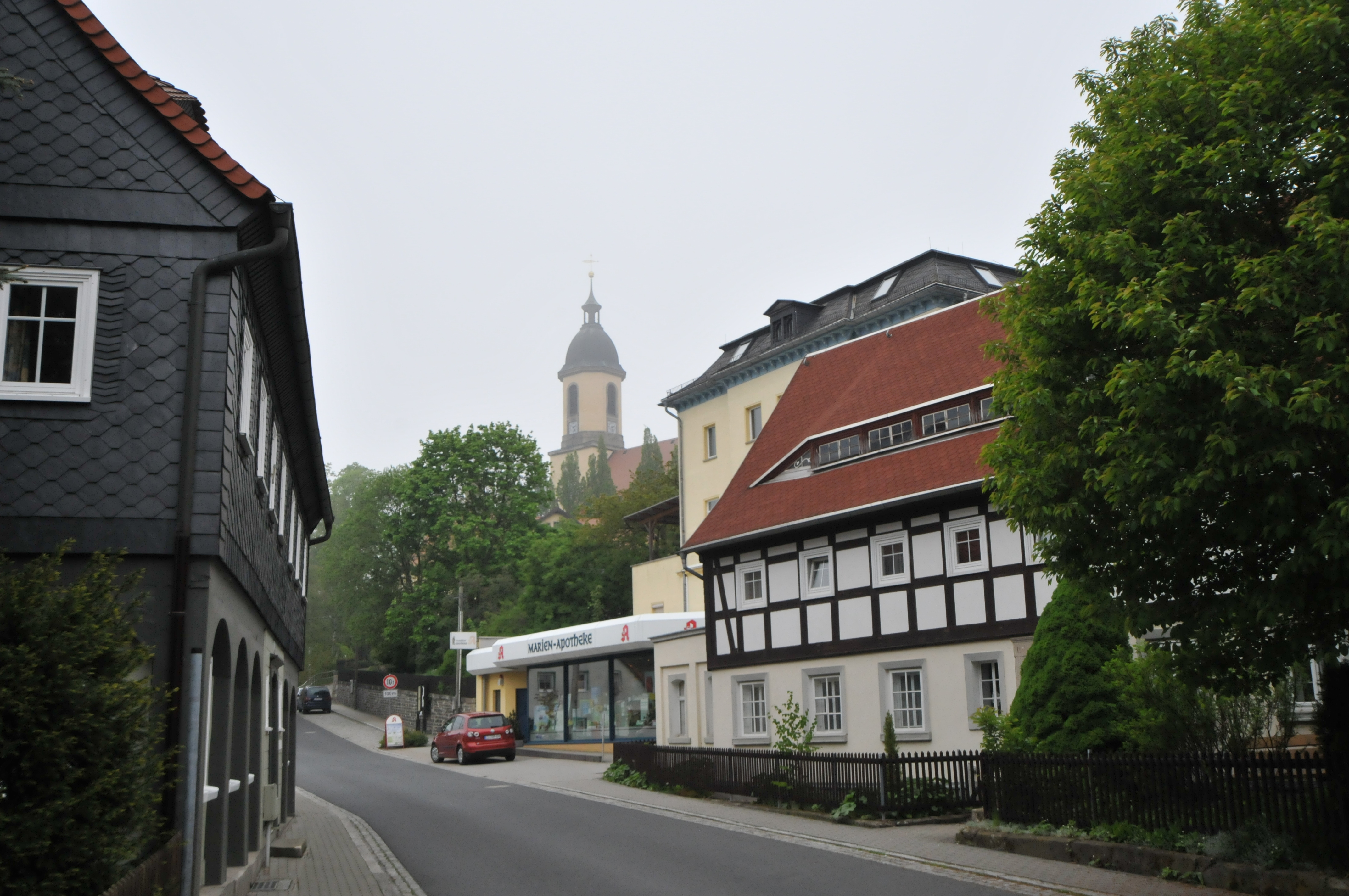 Street and church in Seifhennersdorf, Saxony, Germany. Wikipedians in Seifhennersdorf This photo was taken during the project Wikipedians in Seifhennersdorf in May 2014. Supported by Wikimedia Deutschland, Wikimedia Österreich, Wikimedia Polska and Wikimedia Czech Republic. The making of this document was supported by Wikimedia Austria.